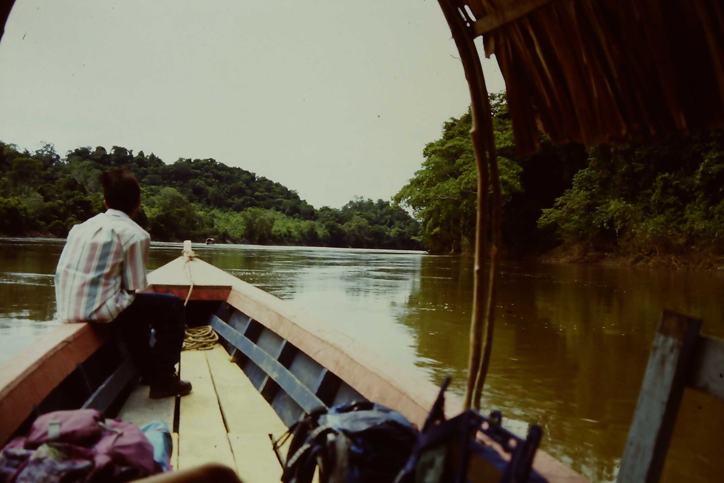 Travelling Usumacinta river by boat to go from Mexico (Palenque) to Tikal (Guatemala)